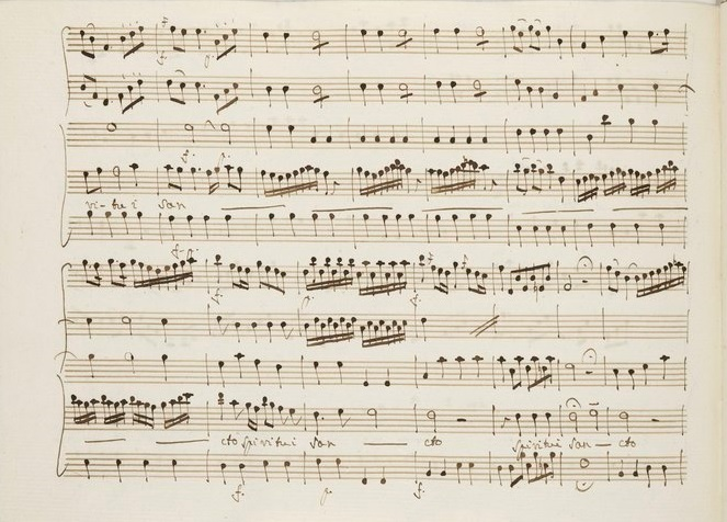 Vocal melismas for solo soprano in Galuppi's 1771 In convertendo Dominum for SATB choir and soloists